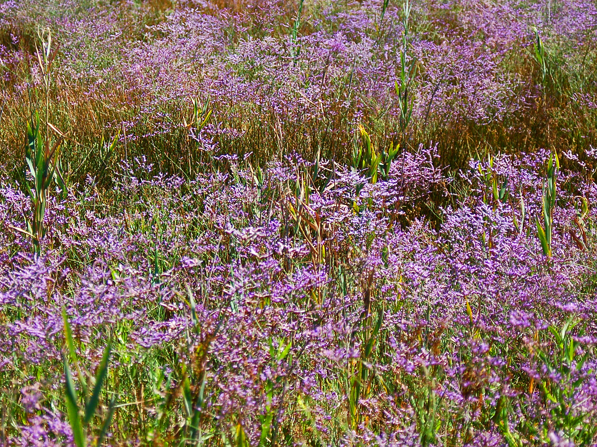 Plants of Limonium narbonense. Isola della Cona, Trieste, Italy